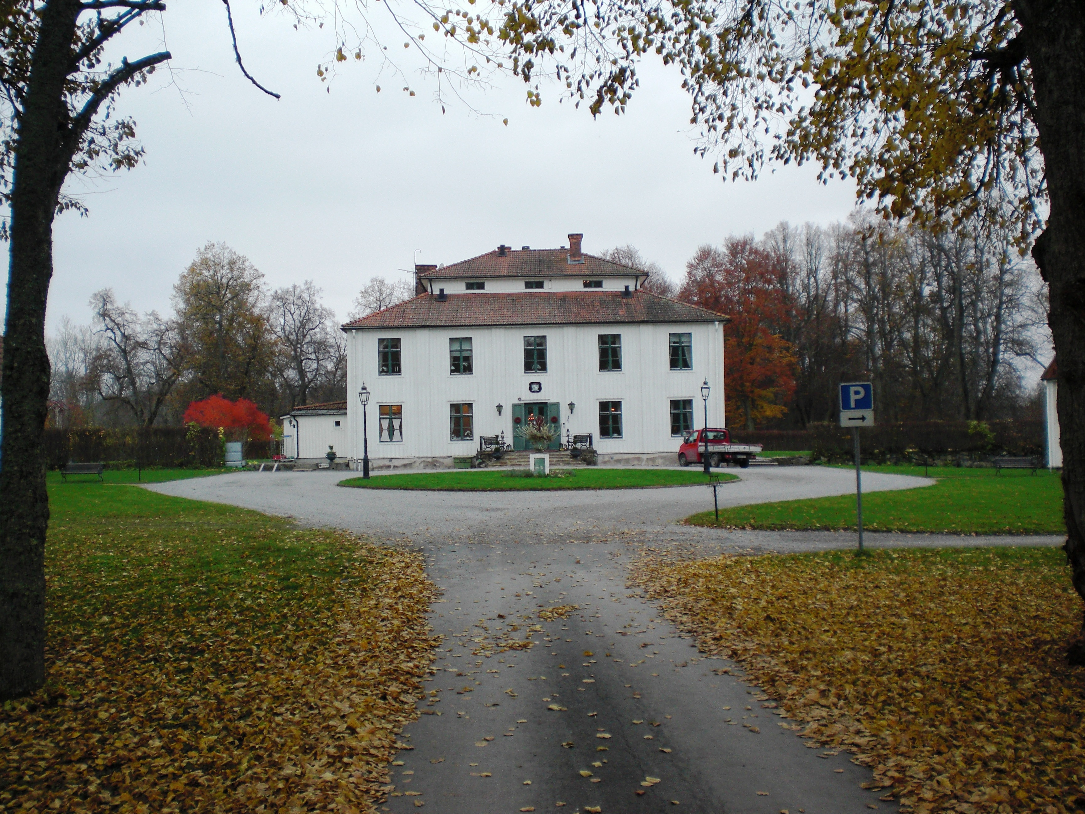 Noors manor, Knivsta, Sweden